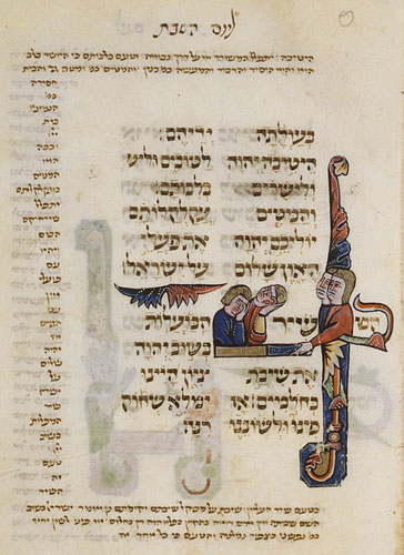 Psalm 126 - Two human figures are looking up, one with parted lips and the other with his left arm stretched out. To the left of the word are two more human figures, with eyes closed and inclined heads resting on their right hands. The latter illustrate v.1, 'When the Lord restored the fortunes of Zion, we were like those who dream', and the former, either the word shir (song) of the superscription, or v.2, 'Then our mouth was filled with... shouts of joy'.